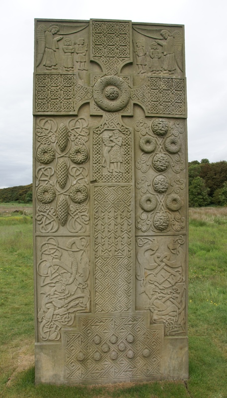 Hilton of Cadboll Stone replica, Highland, Scotland